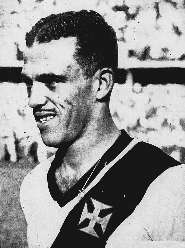 Brazilian association football player Jair Rosa Pinto during his time with CR Vasco da Gama (1943–46)